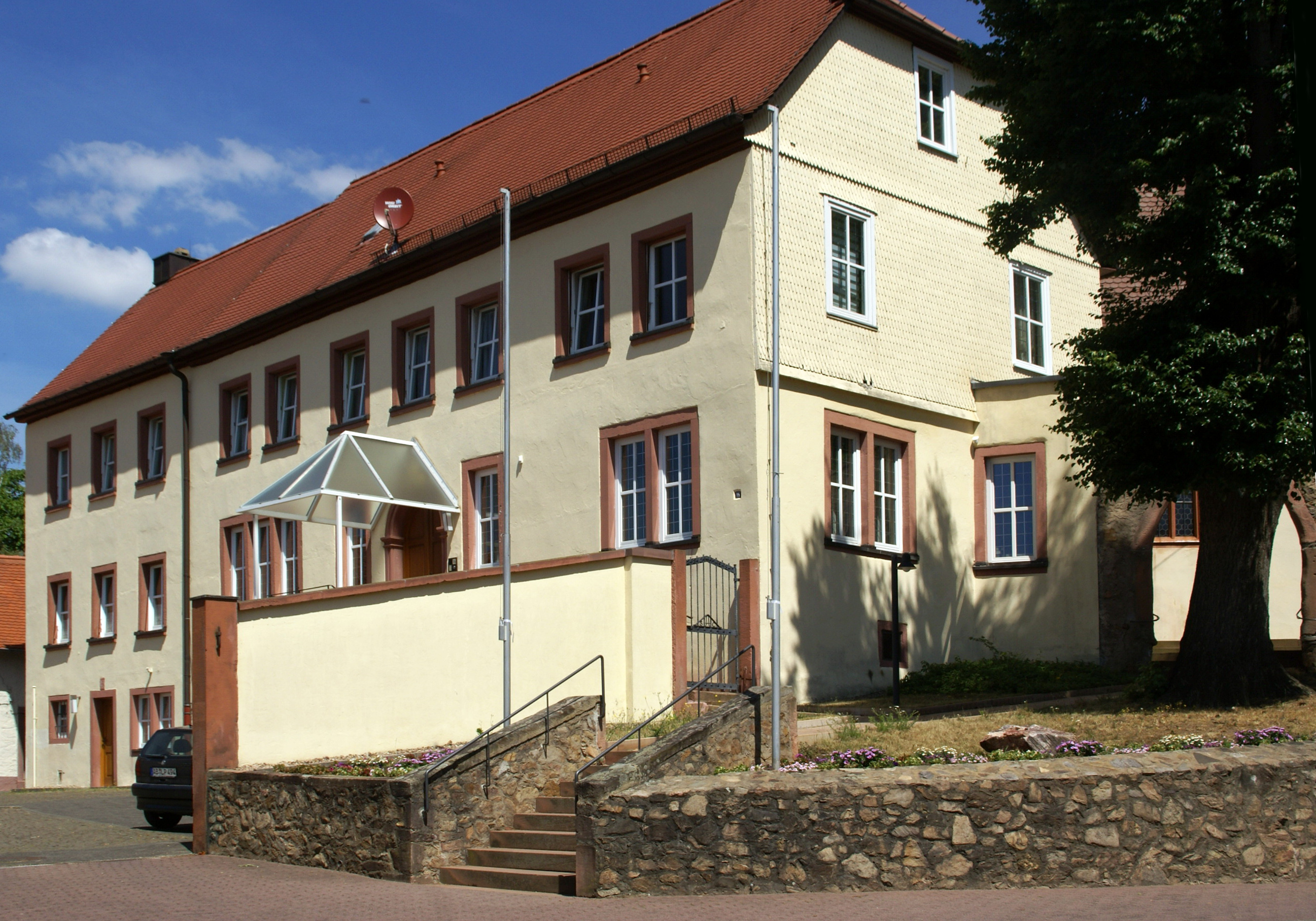 Former catholic rectory in Kälberau, Michelbacher Straße 16